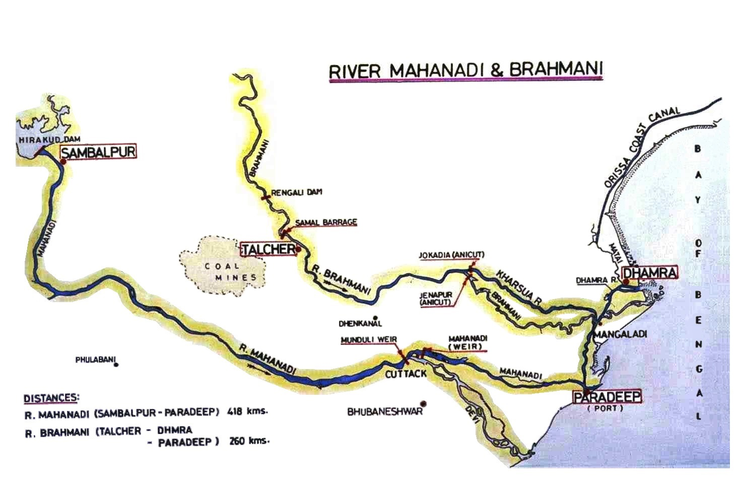 A sketch of the lower reaches of Mahanadi